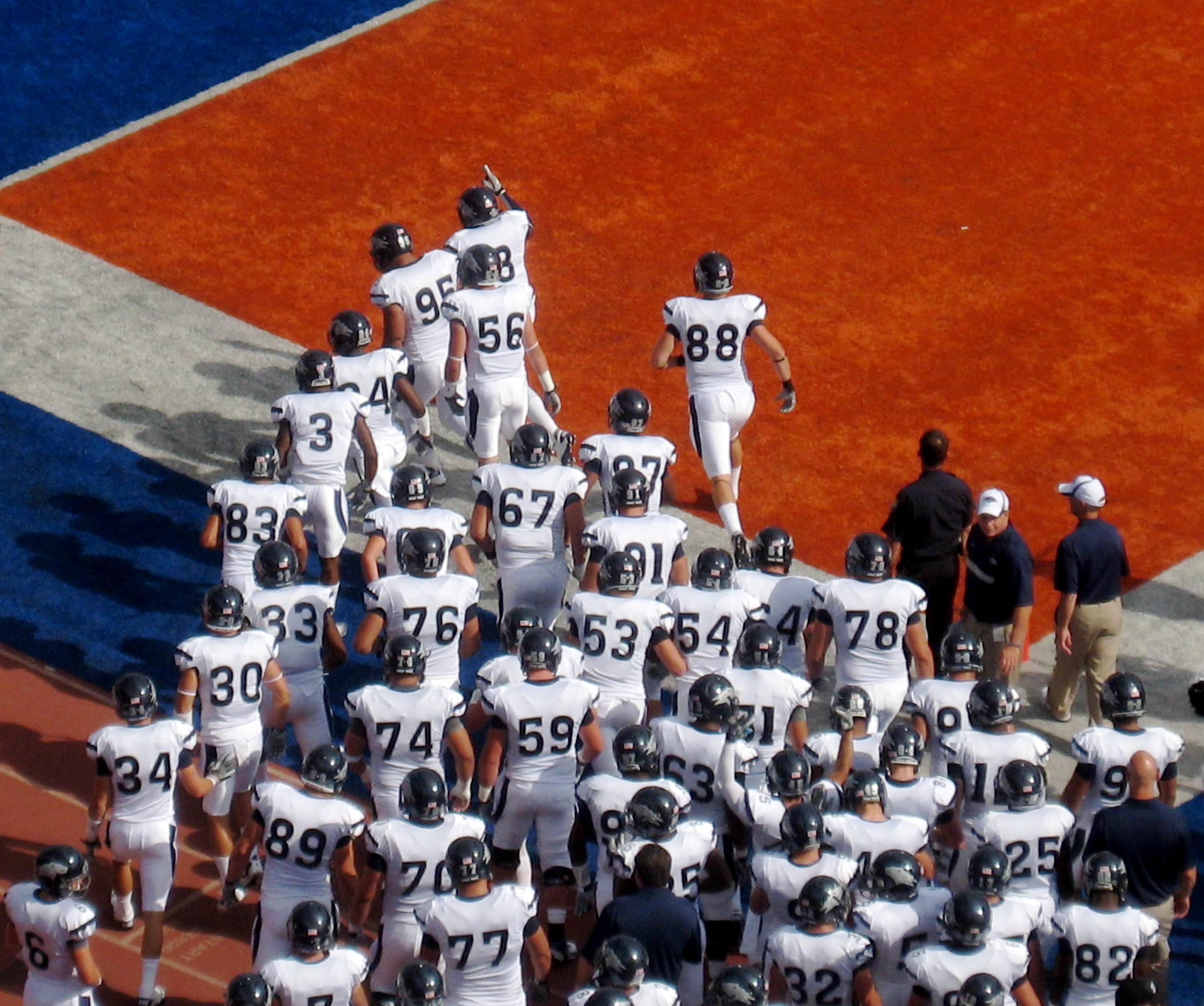 The Nevada Wolf Pack taking the field before their game vs Boise State at Bronco Stadium in Boise, Idaho on October 1, 2011.